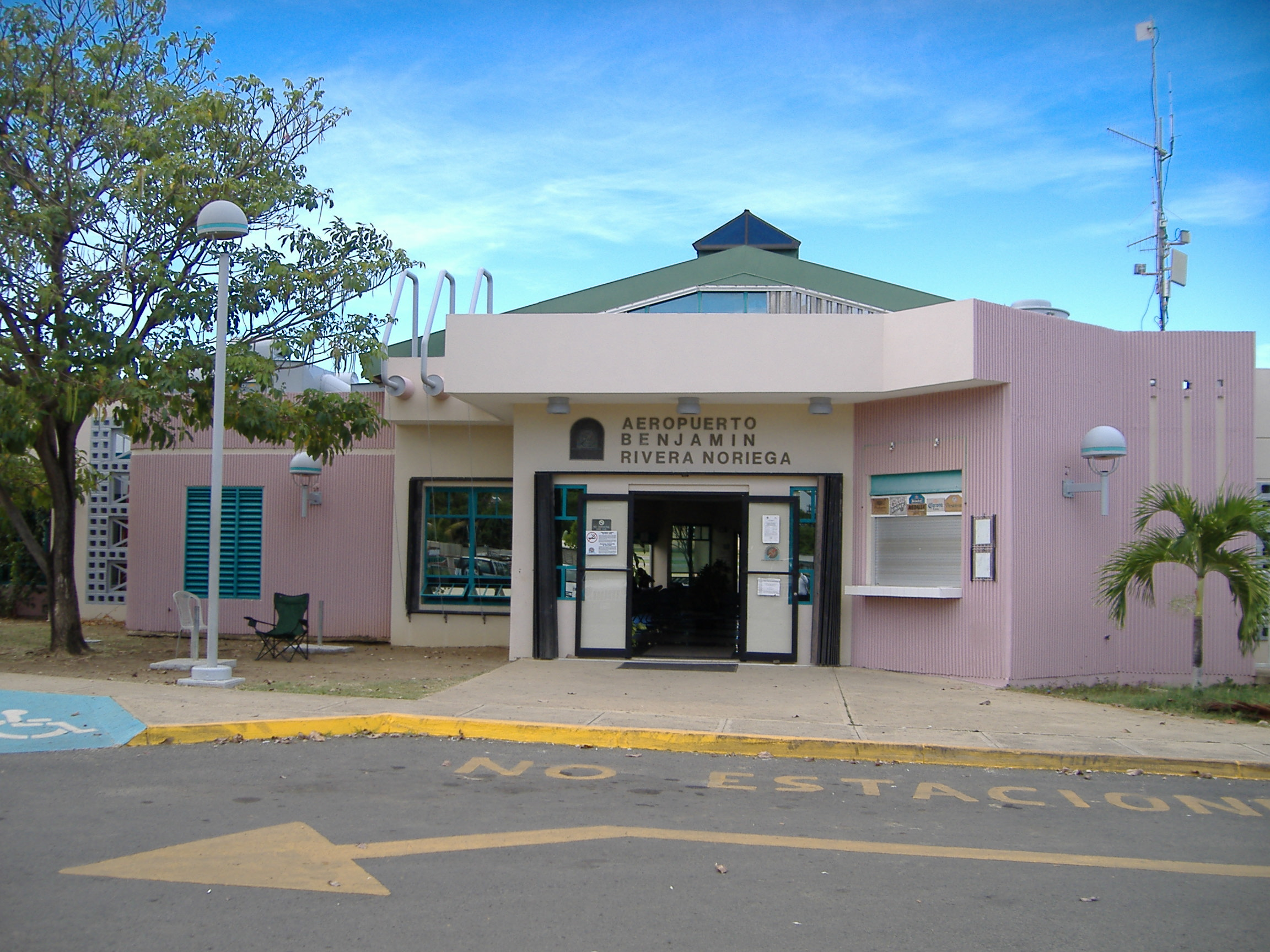 Front entrance of the Culebra Airport in Culebra, Puerto Rico.